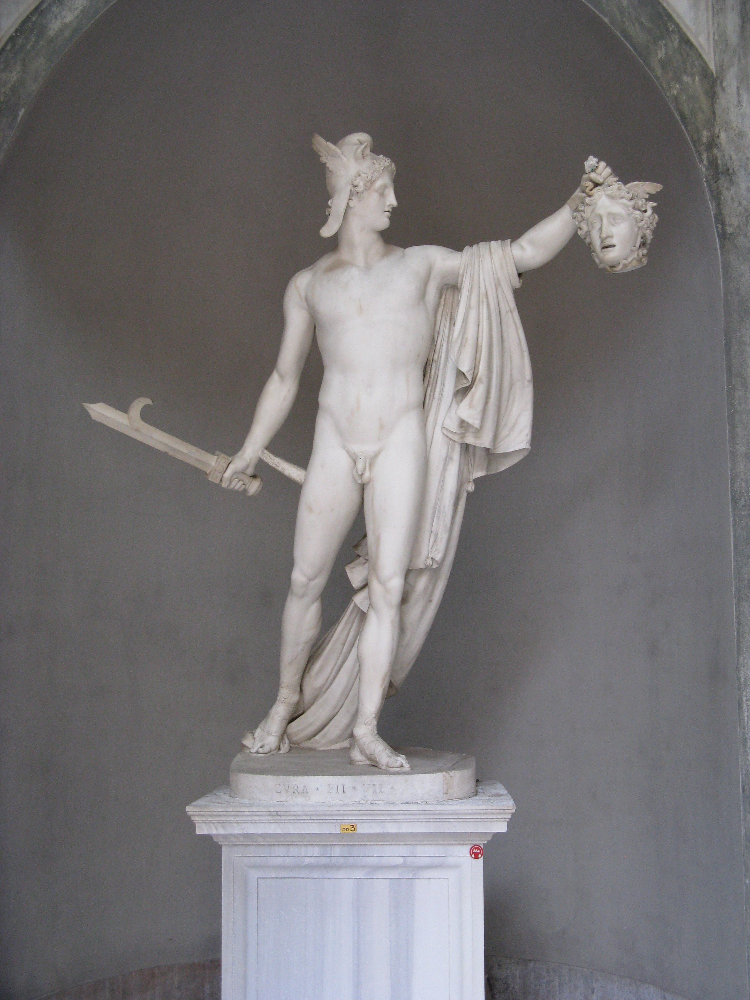 Perseus and the head of Medusa by Antonio Canova in Vatican Museums.